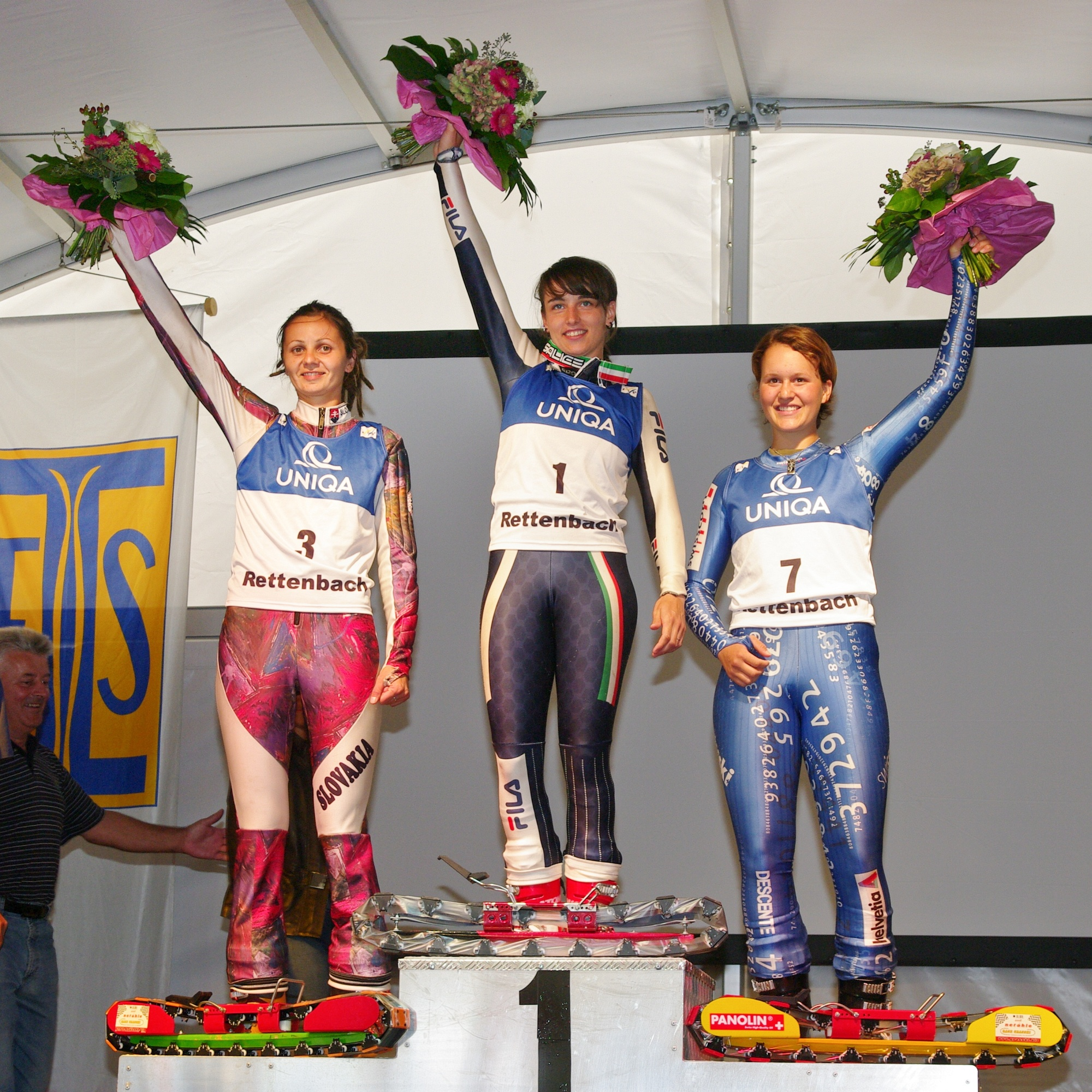 Grass Skiing World Championships 2009 in Rettenbach, Austria. Women's Slalom, Flower Ceremony: 1st Place: Ilaria Sommavilla (ITA), 2nd Place: Veronika Cvasková (SVK), 3rd Place: Bianca Lenz (SUI)